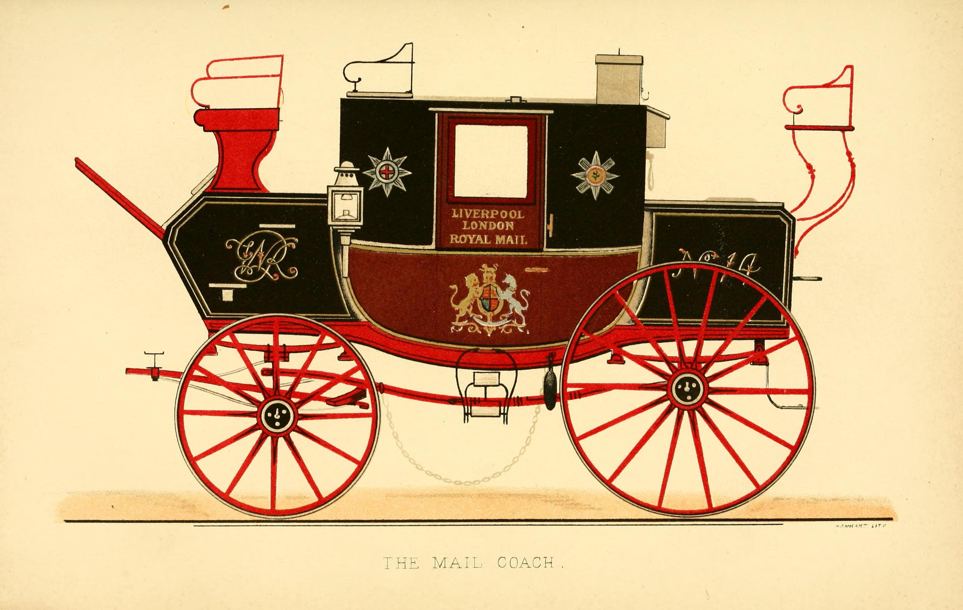 A Mail Coach Title: Annals of the road : or, Notes on mail and stage coaching in Great Britain Year: 1876 (1870s) Authors: Malet, Harold Esdaile; Nimrod, 1778-1843 Subjects: Horses; Coaching (Transportation) -- England; Roads -- Great Britain Publisher: London : Longmans, Green, and Co. Text Appearing Before Image: ' Text Appearing After Image: '